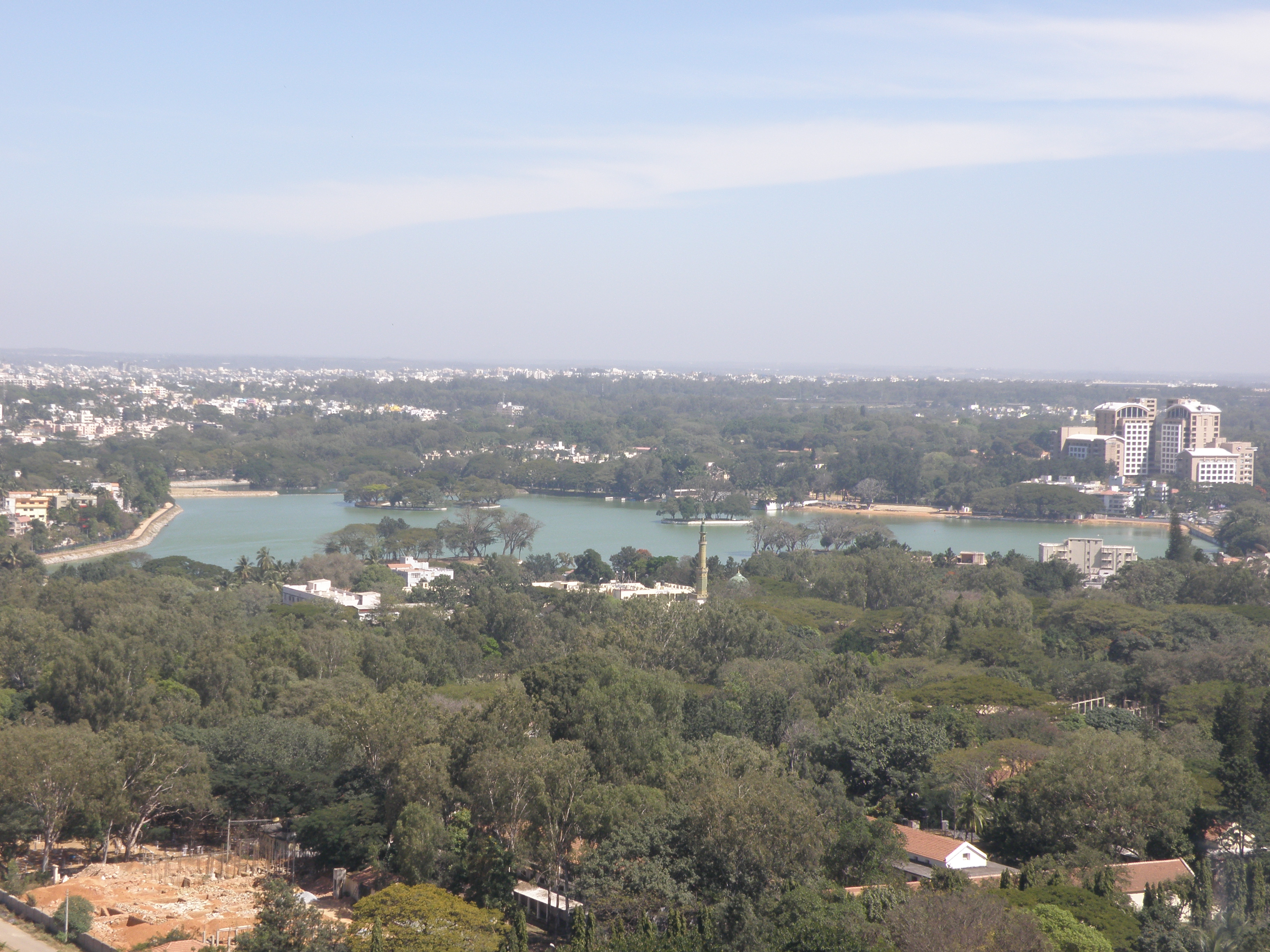 Ulsoor Lake, Bangalore, as seen from the Public Utility Building.